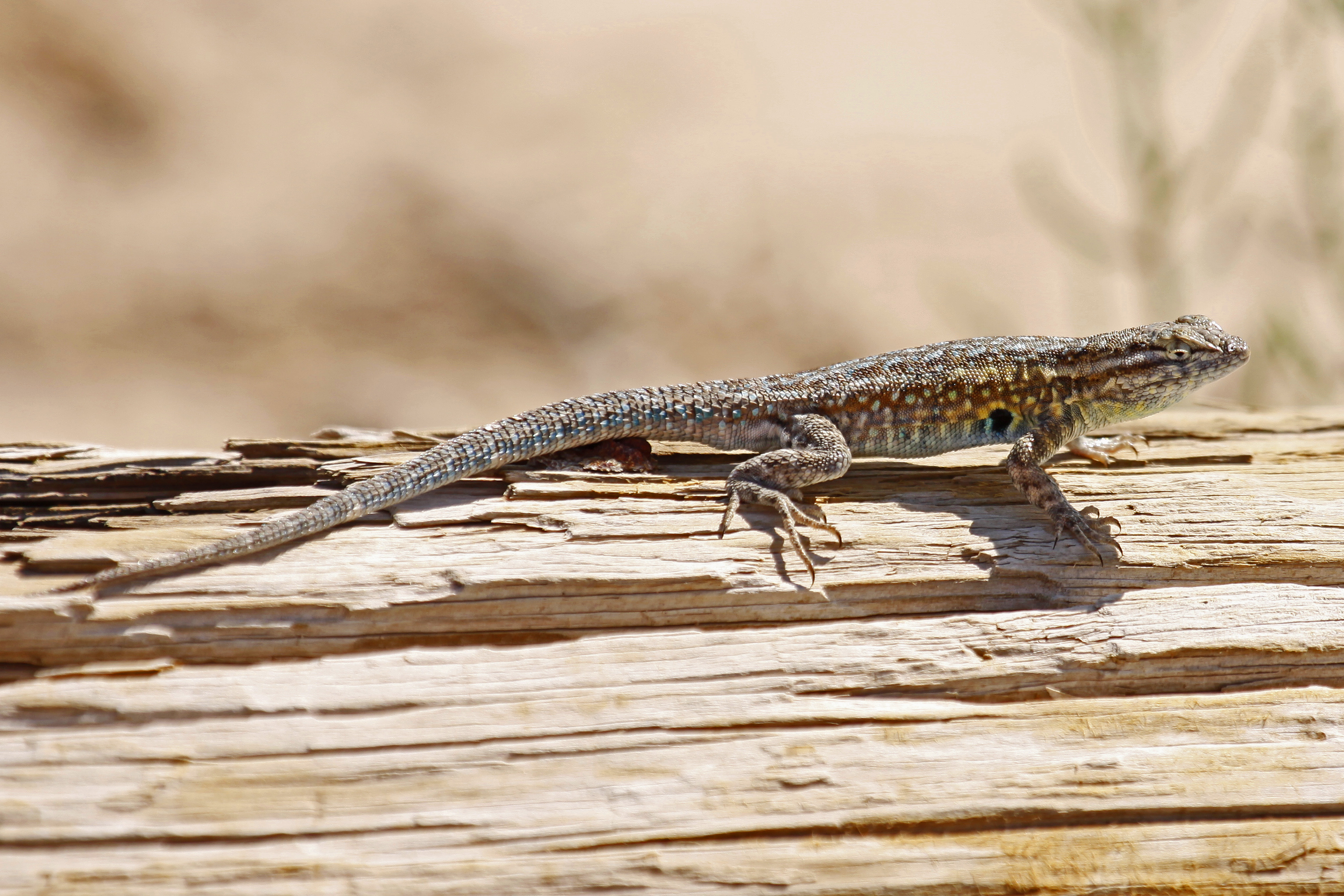 Desert Side-blotched Lizard - Uta stansburiana stejnegeri, White Sands National Monument, Alamogordo, New Mexico